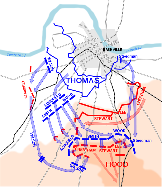 Battle of Nashville 15.-16. December 1864